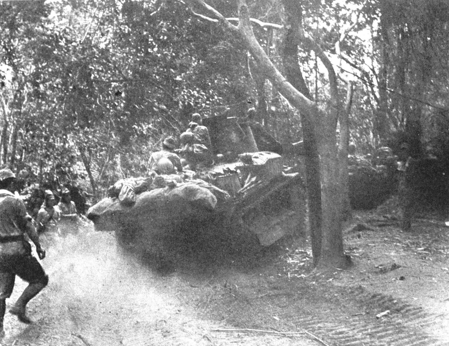 Japanese tank moving forward on Bataan. Without anti-tank weapons, the PACR was helpless to stop an armored attack.